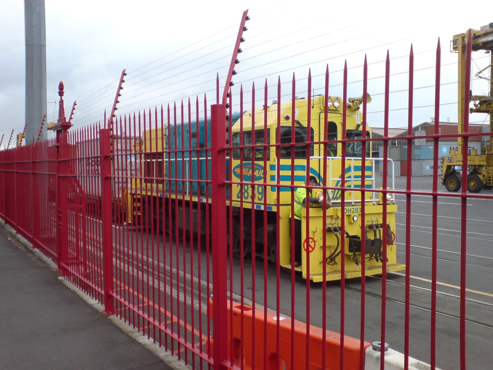 A train carrying containers, at Ports of Auckland, Auckland City, New Zealand.